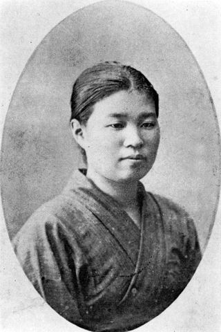 Rin Yamashita